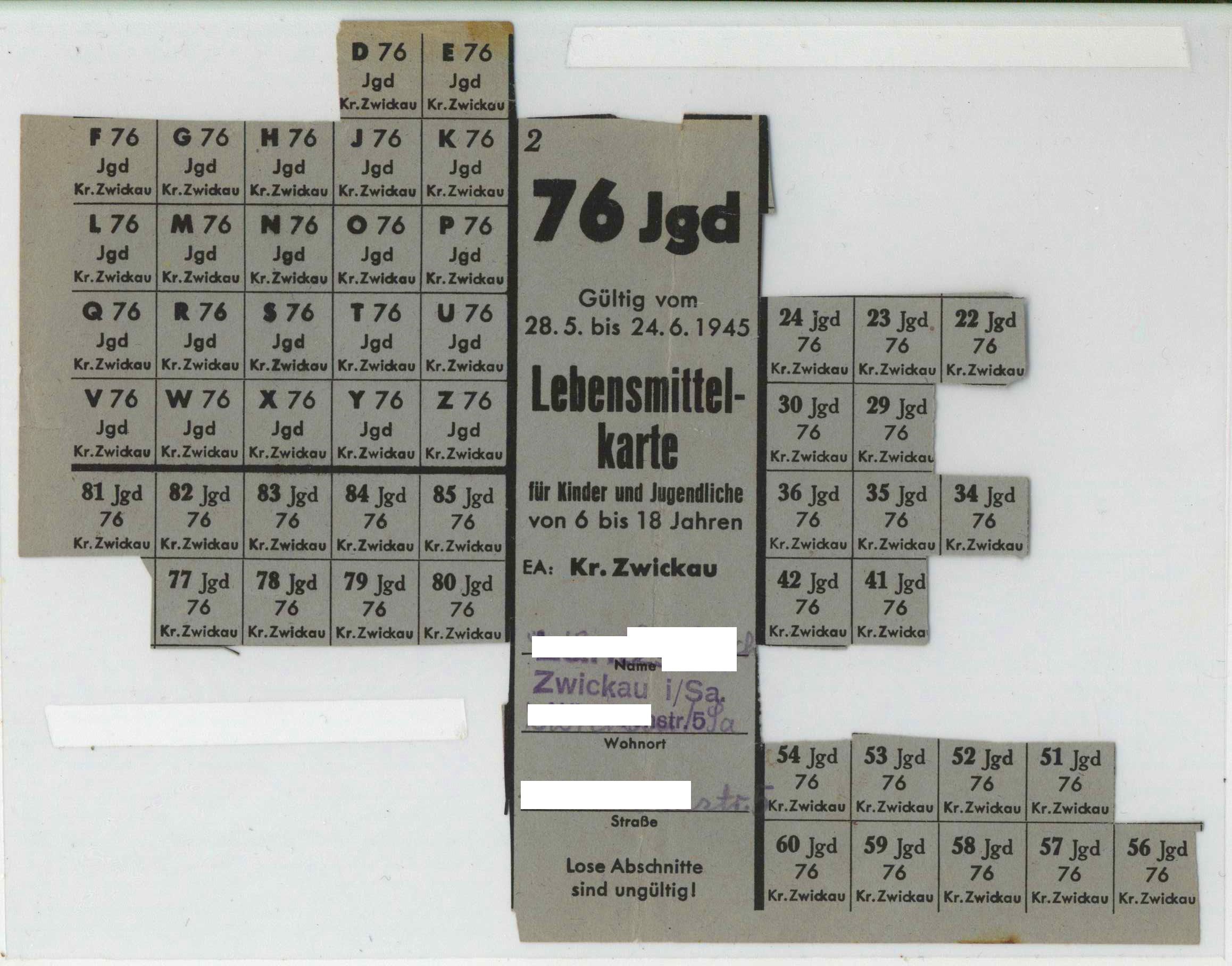 Voucher for food, Germany 1945